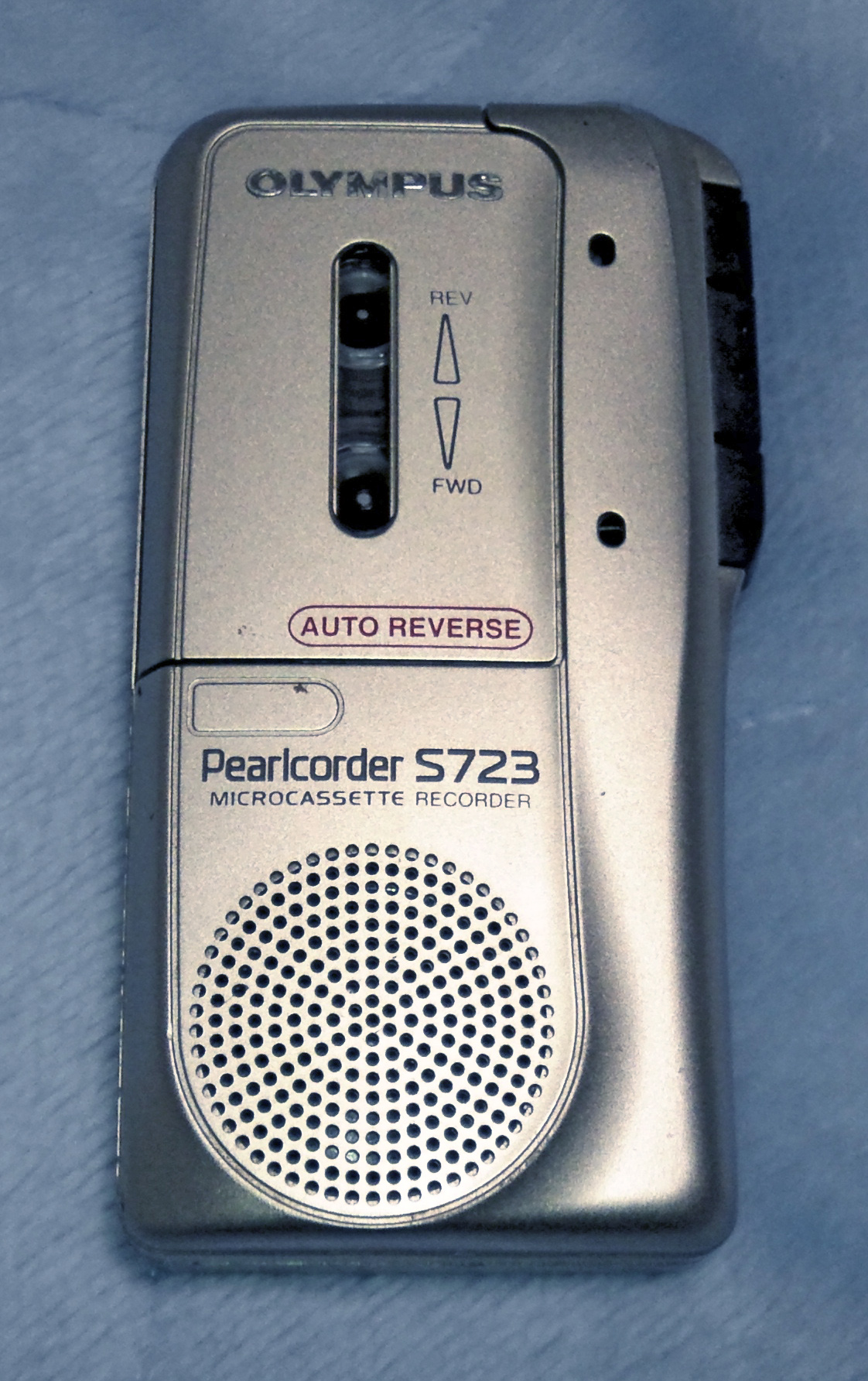 Olympus S723 Microcassette voice recorder. (Original uploader's description:MY TAPE RECORDER)